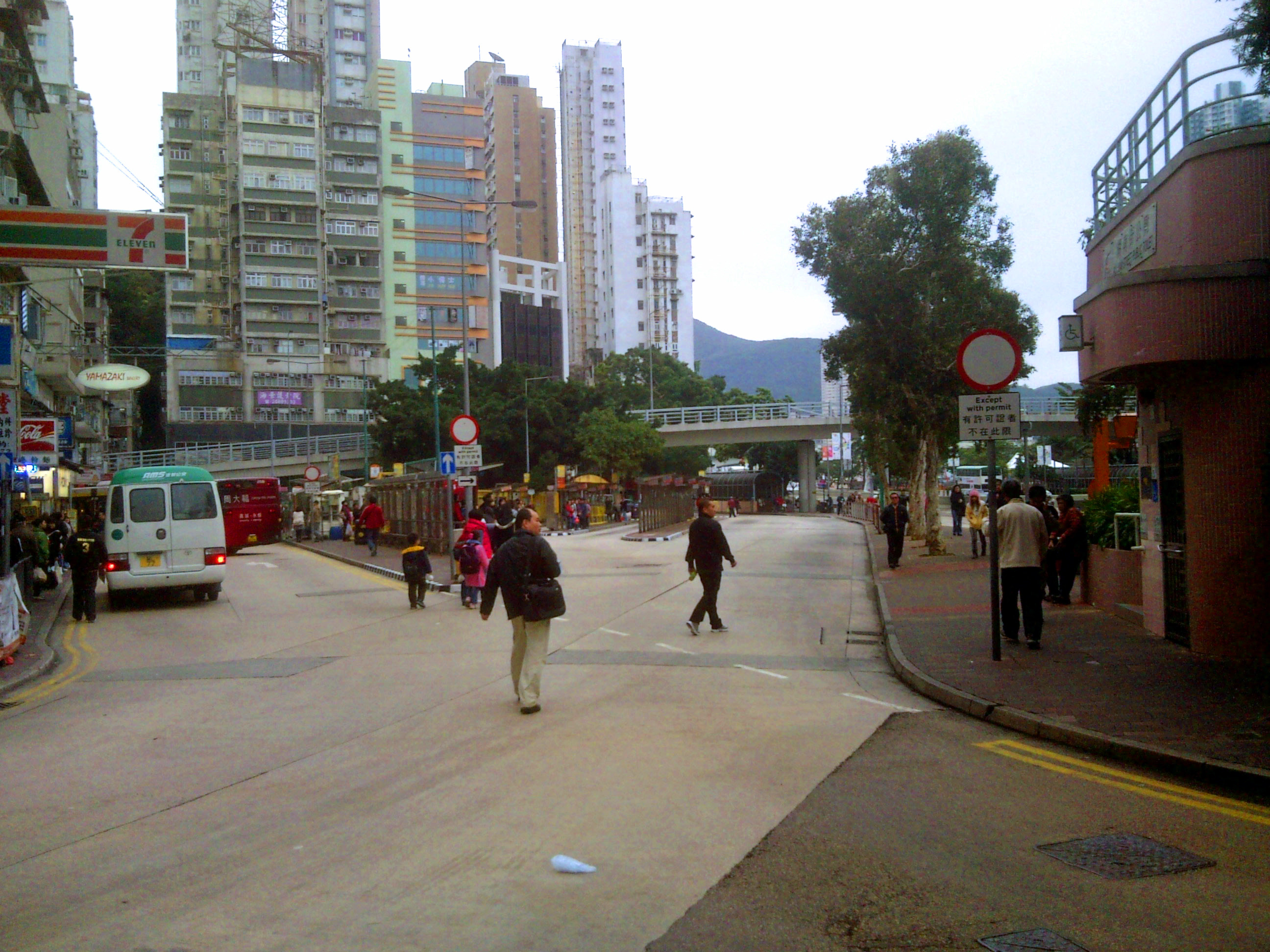 Wu Nam Street near Aberdeen Bus Terminus